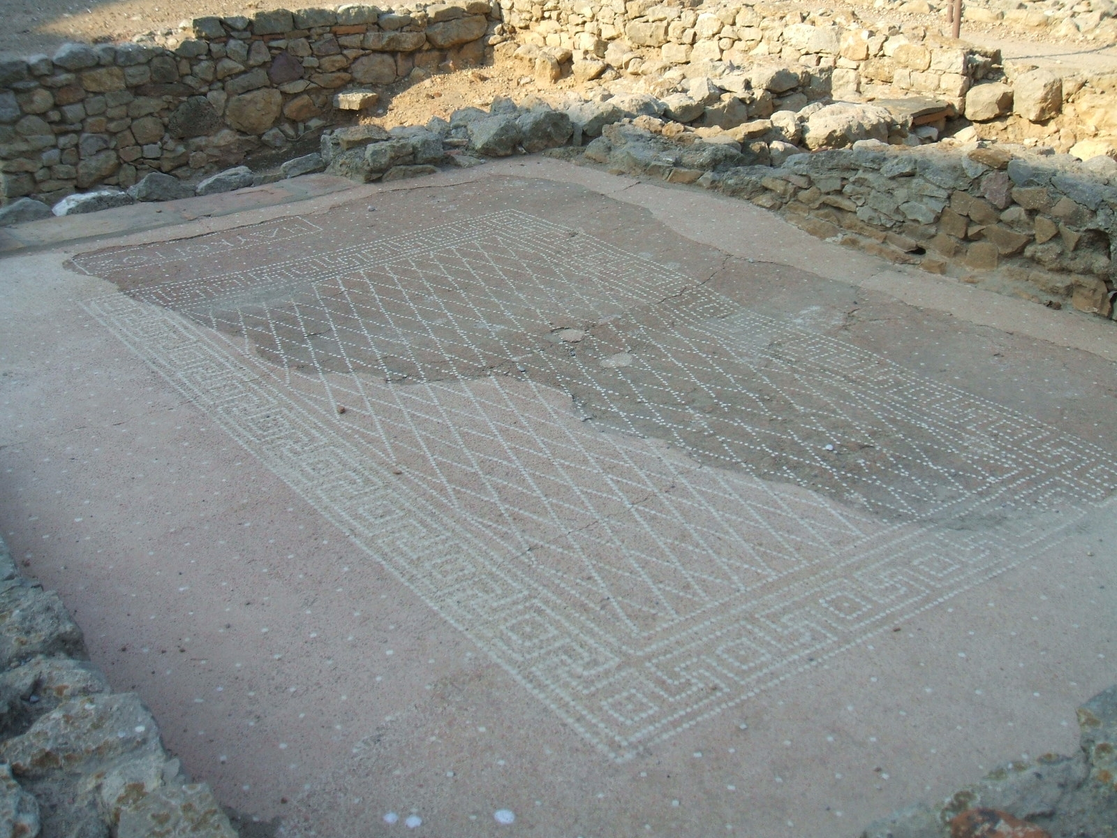 Empuries Archaeological Site (Catalunya, Spain) : Greek ruins of Neapolis ; House with Greek inscription HDUKOITOS ("It's good to lie down").